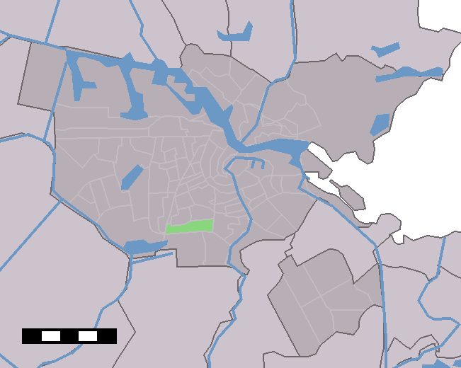 Location of neighbourhoods/districts in Amsterdam